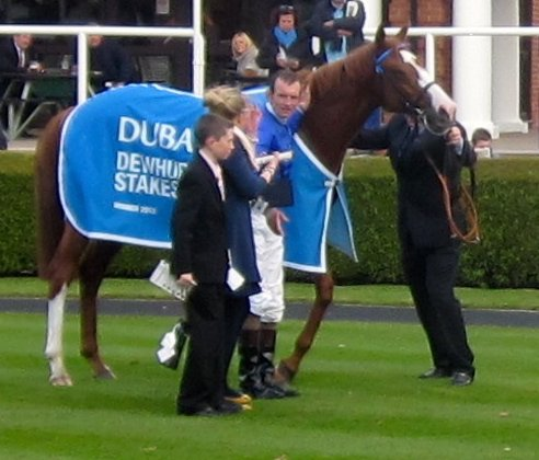 Dawn Approach after winning the Dubai Dewhurst Stakes at Newmarket